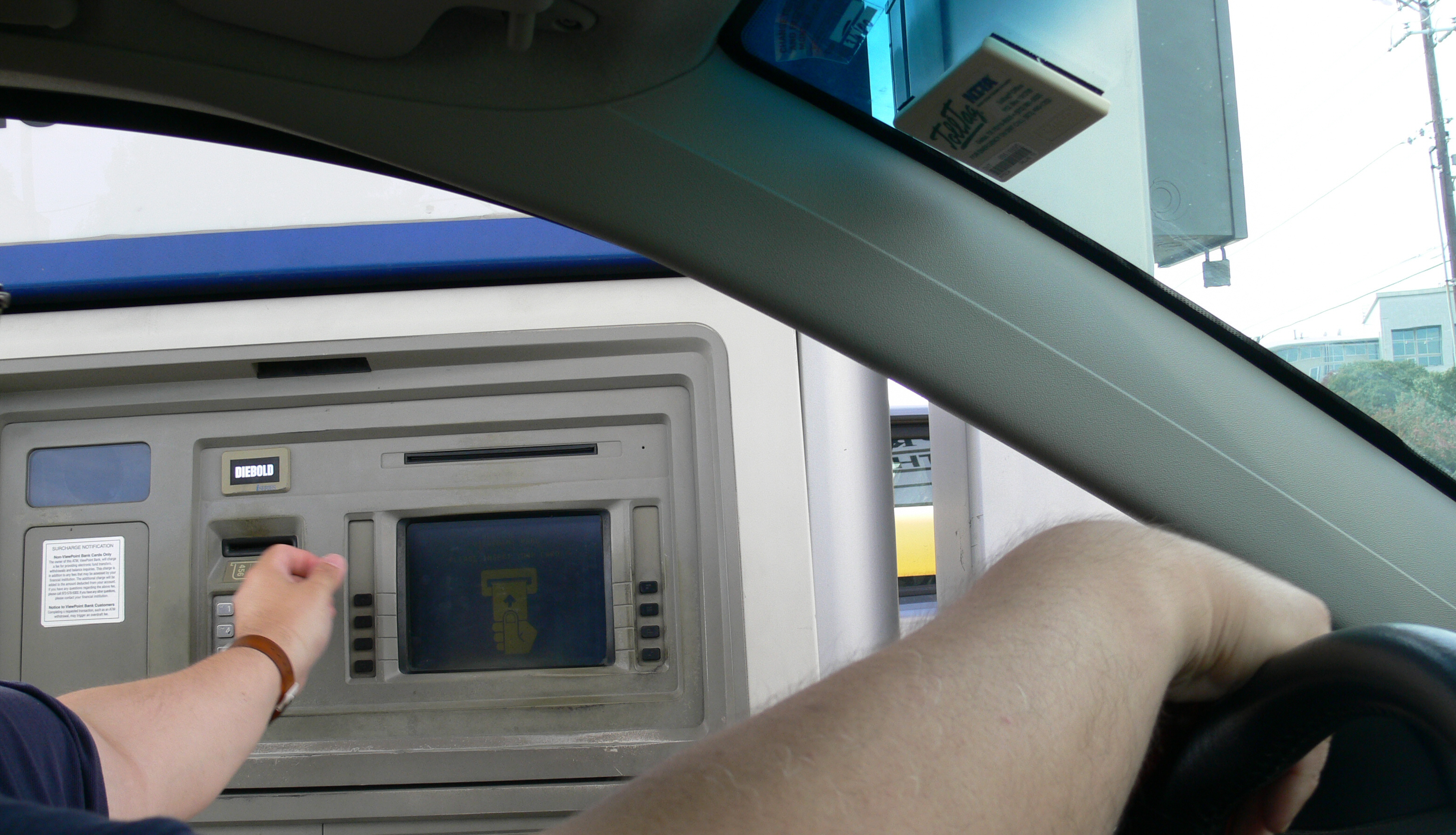 Using a drive-through ATM in Texas